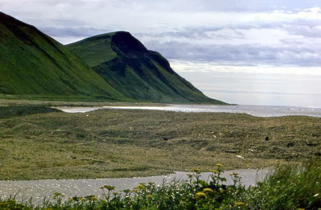 Bering island